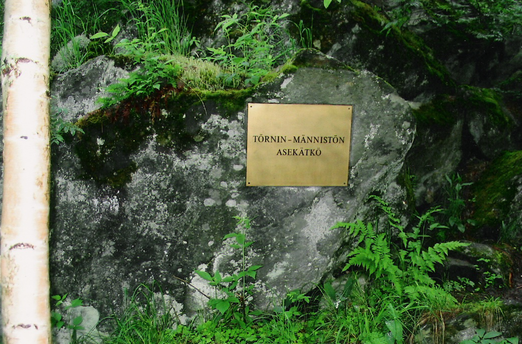 A sign on the weapon cache in Eno (now part of Joensuu), Finland